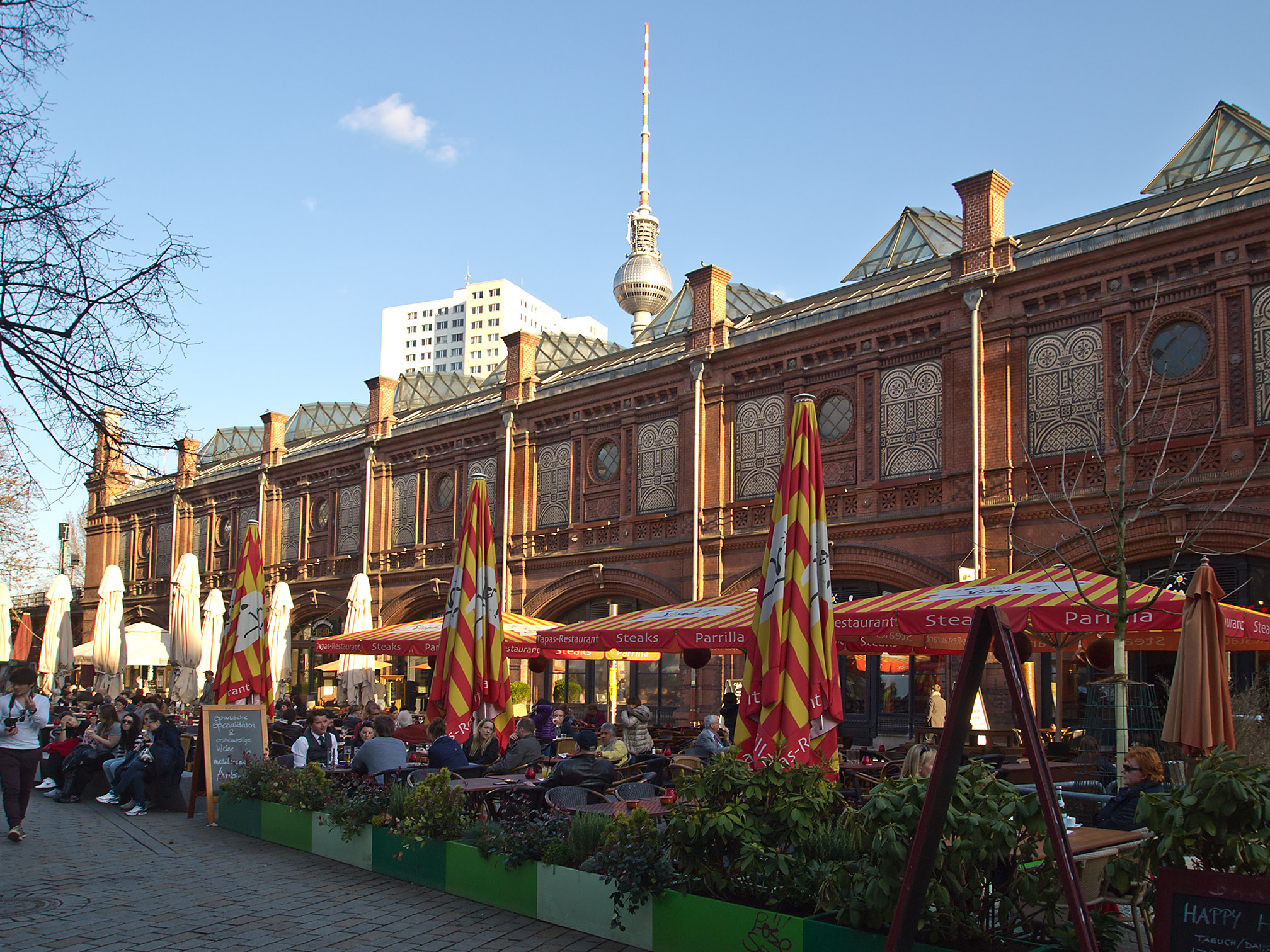 Hacke's Market in Berlin MitteThis is a photograph of an architectural monument.